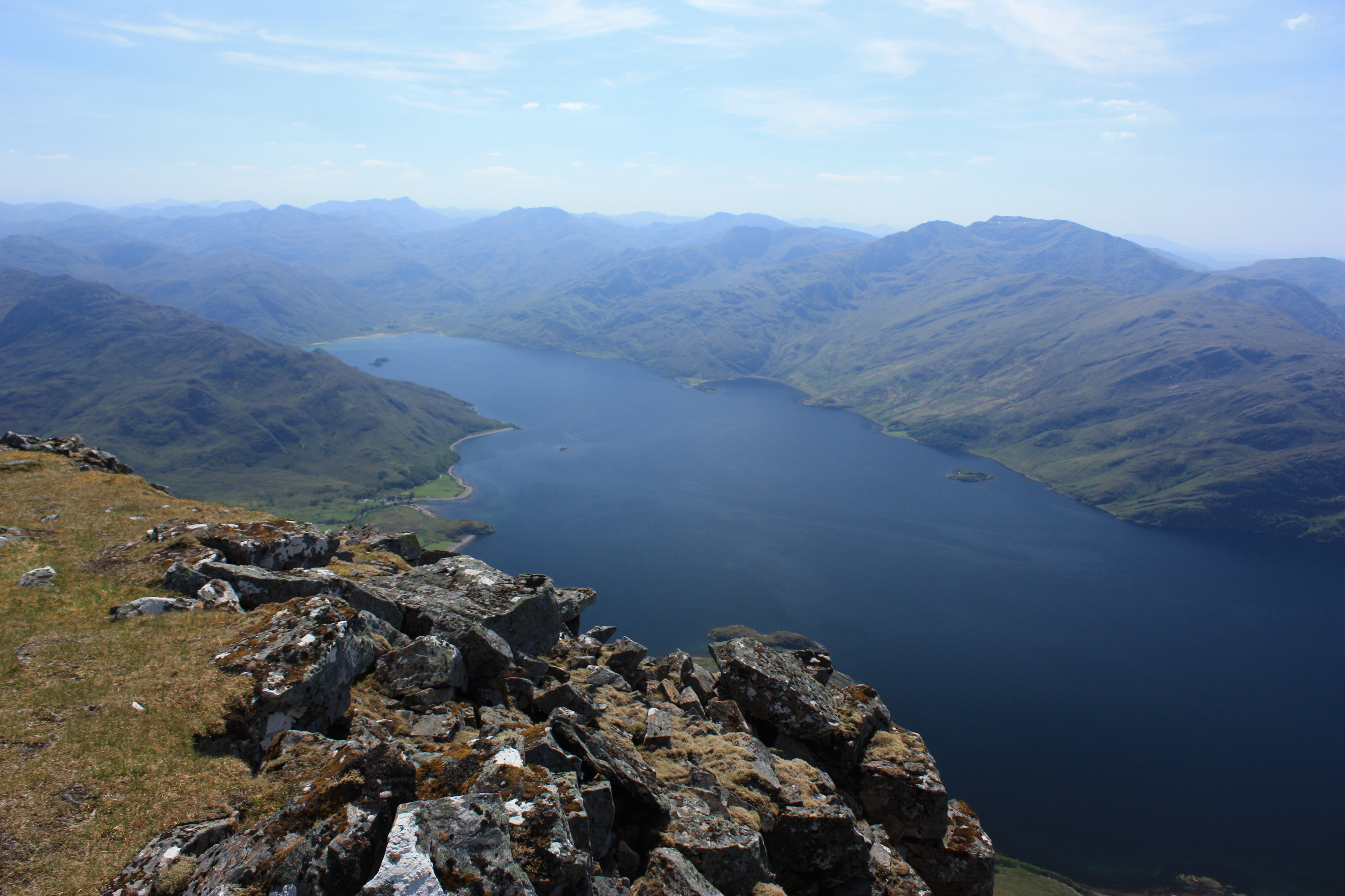 The Loch Hourn and the mountains of Knoydart seen from the summit of Ben Sgritheall